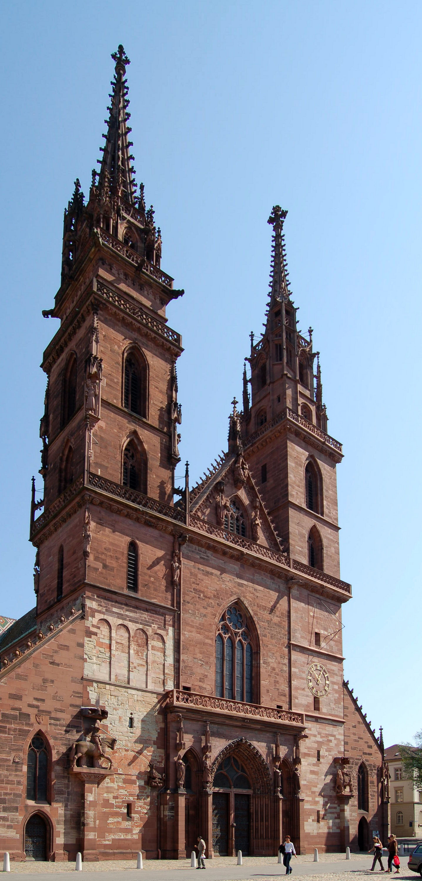 Minster of Basle, Switzerland